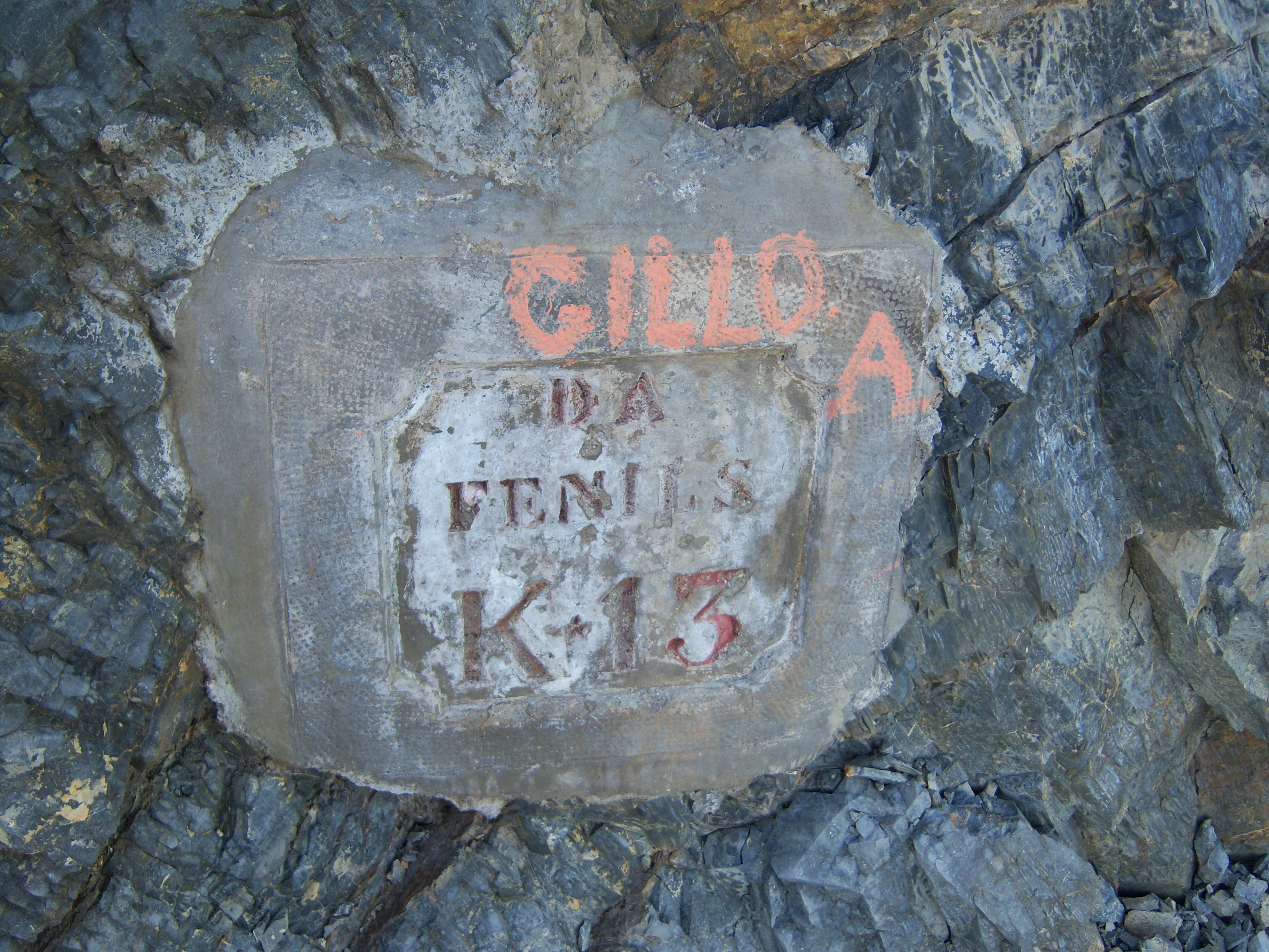 The last mileage stone in Chaberton road